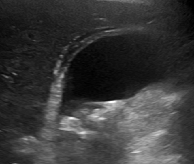 Abdominal ultrasound of a 72 year old man with 1-day history of severe abdominal pain. It shows gallstones, a thickened gallbladder wall, and pericholecystic fluid (dark strand) between the gallbladder and liver. These are typical findings of cholecystitis.